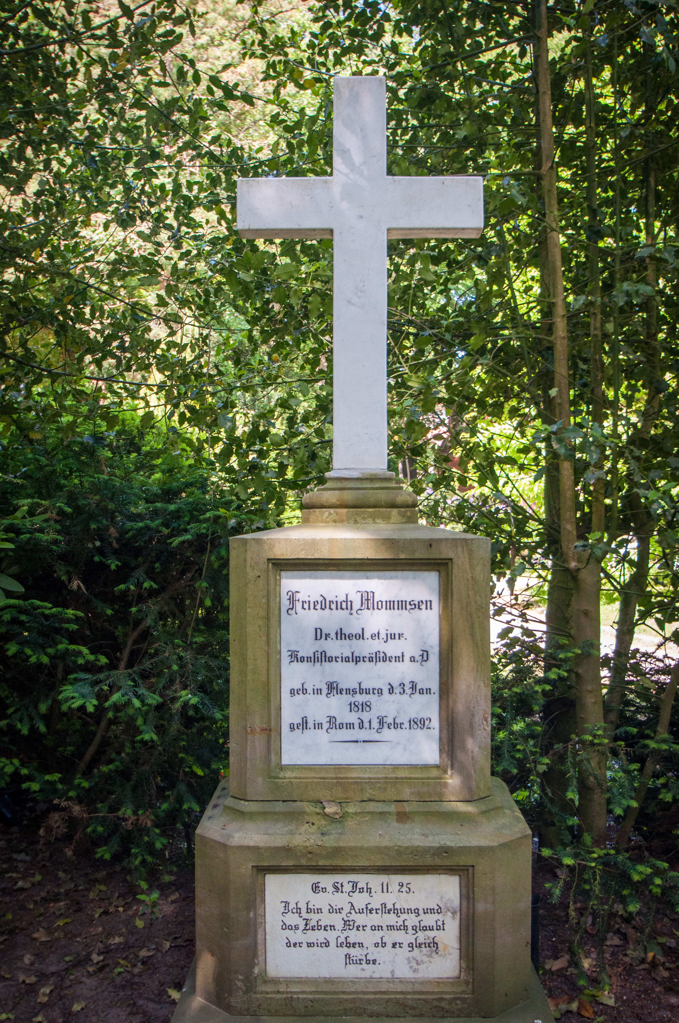 Gravesite of Friedrich Mommsen (* January 3rd, 1818 in Flensburg; † February 1st, 1892 in Rome)